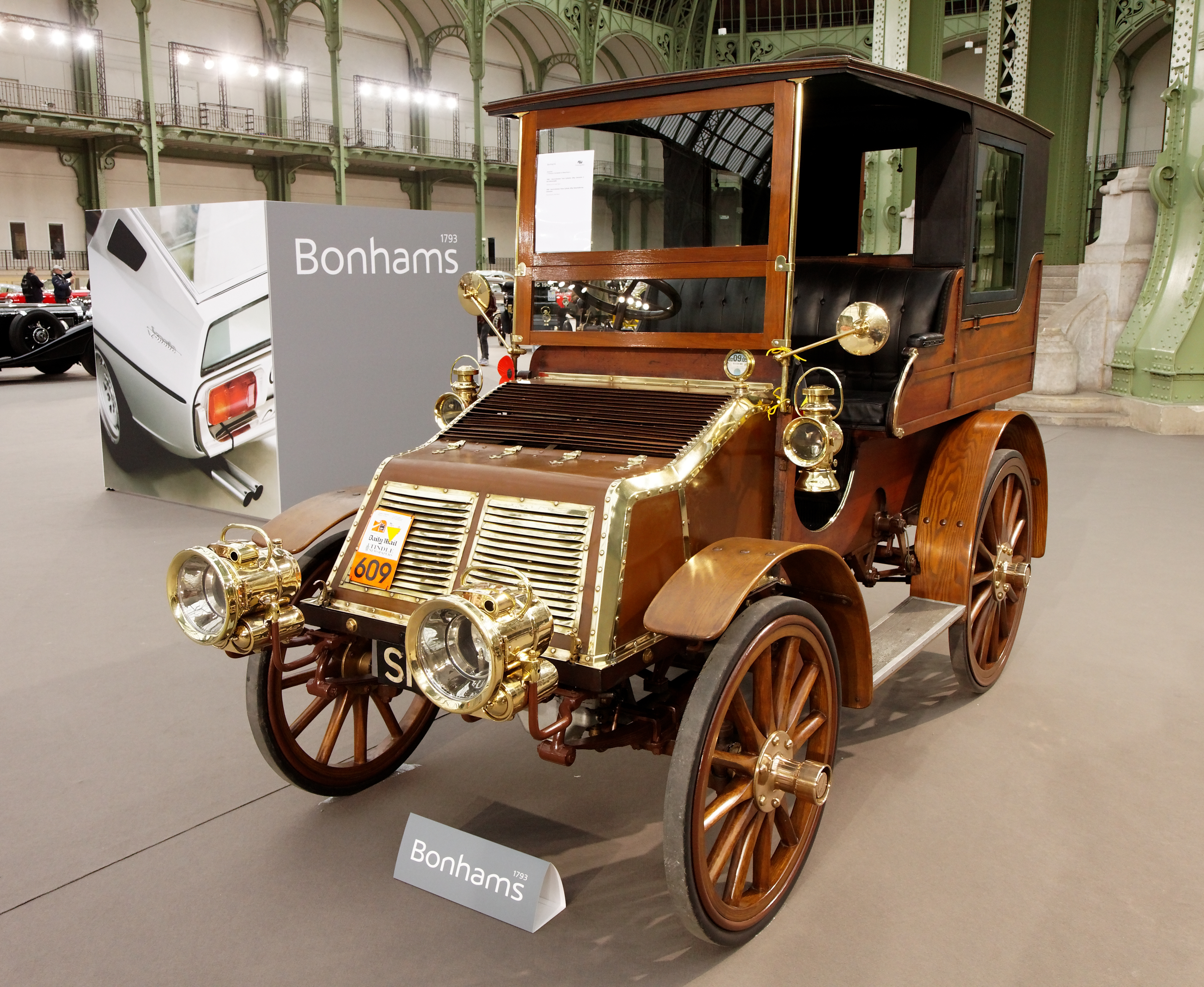 1904 Arrol-Johnston 20 CV limousine during « 110 ans de l'automobile » exhibition in the Grand Palais.